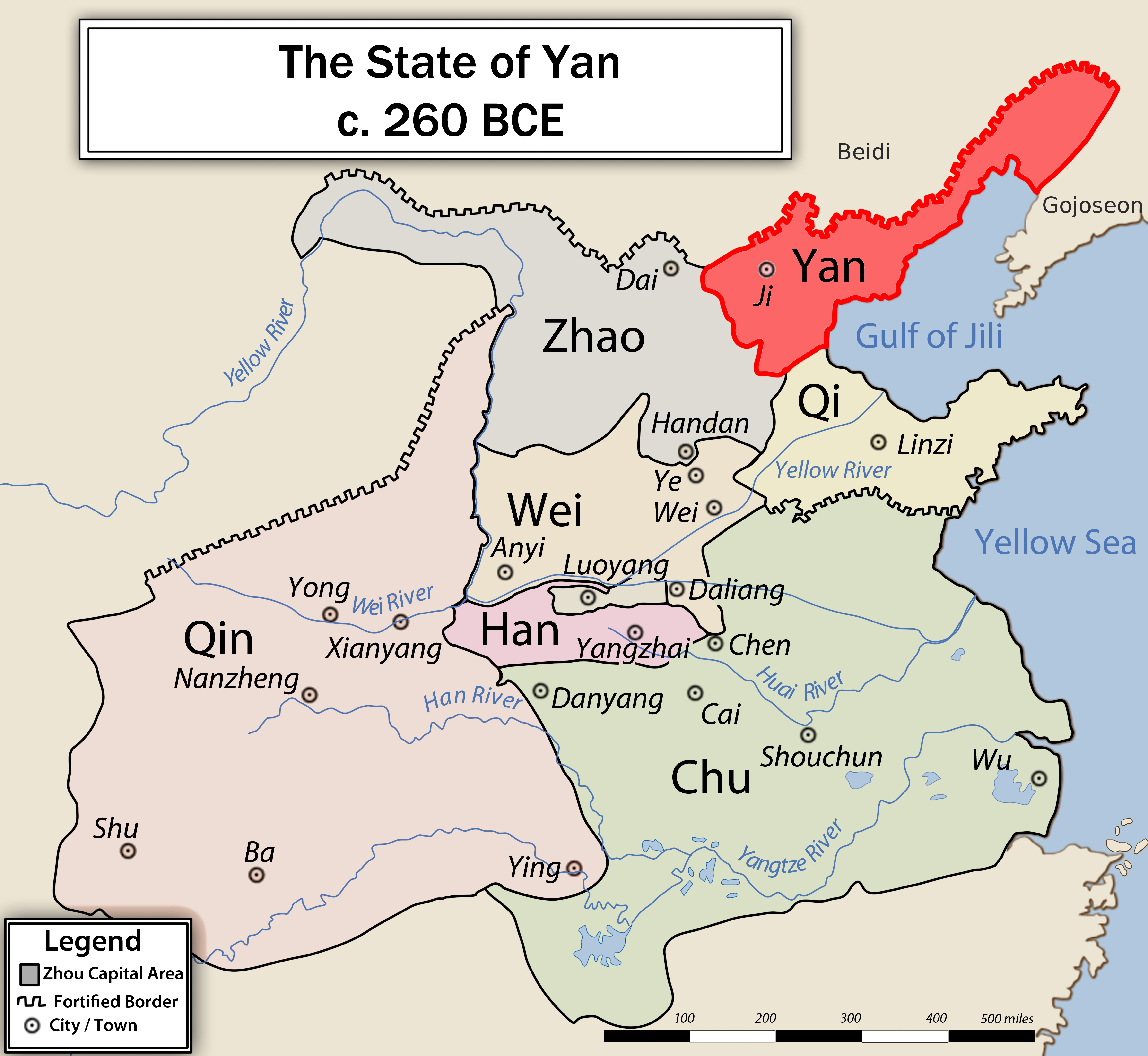 China Map, Yan State, 260BCE